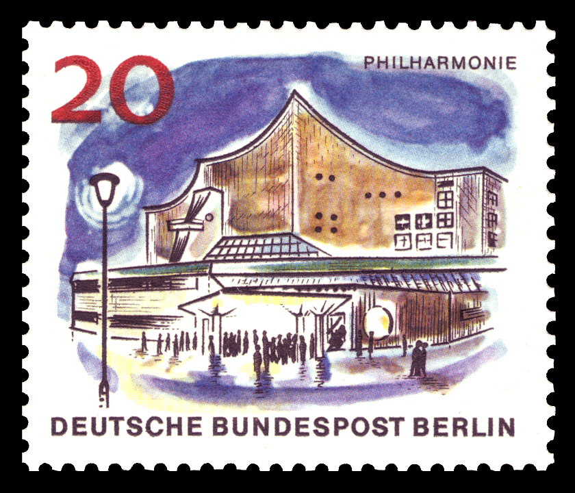 series "The new Berlin"